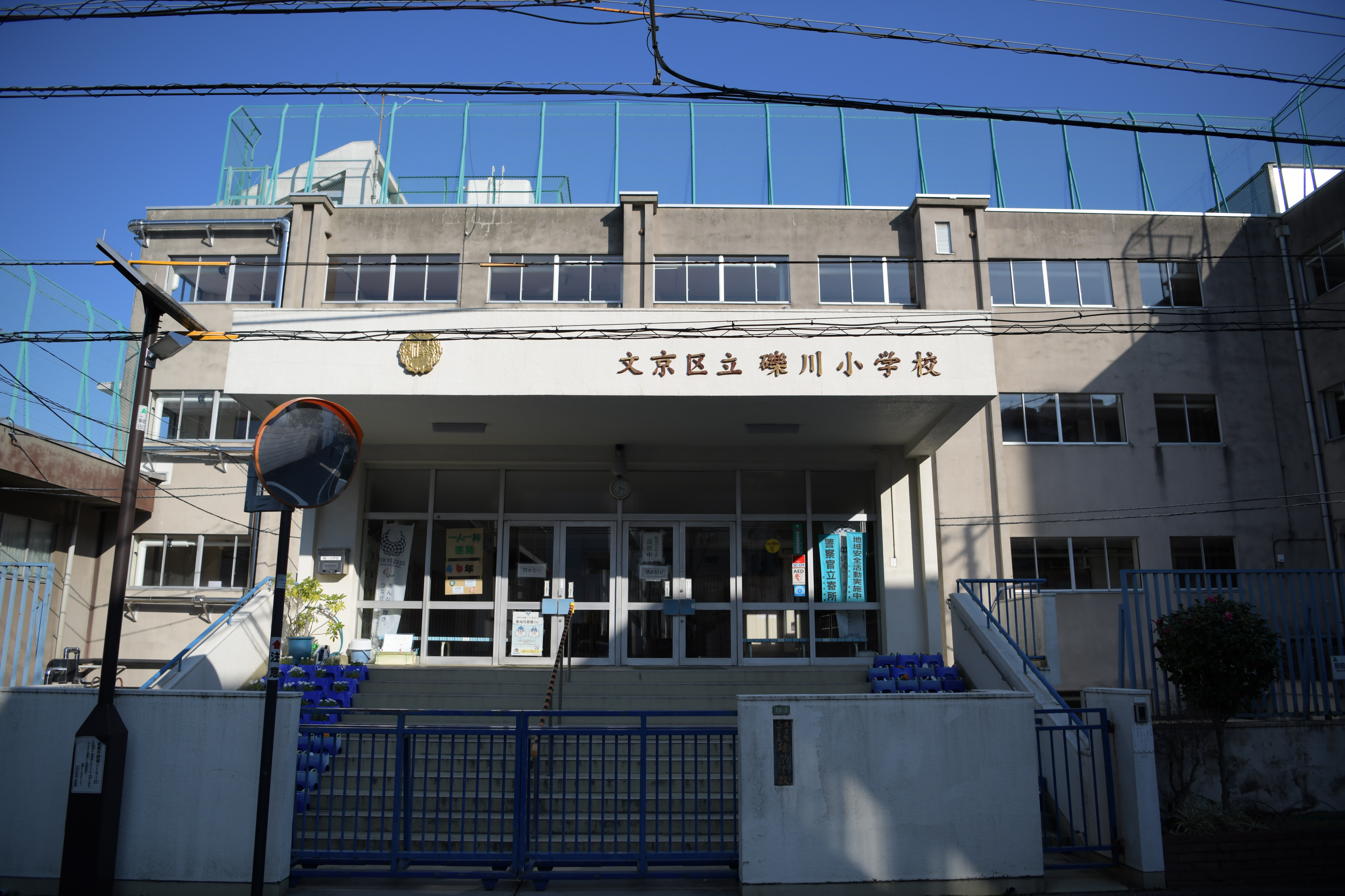 礫川小学校の正面